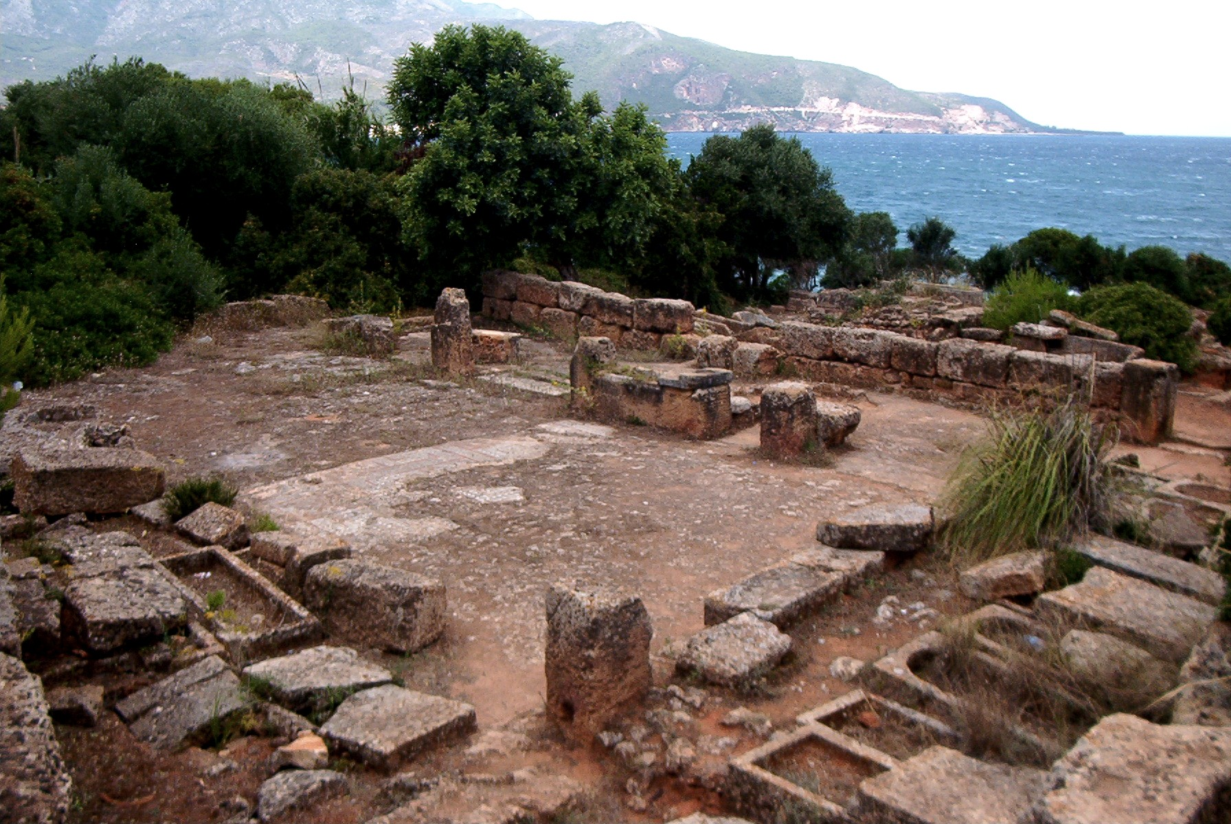 Ruins of the Byzantine era Basilica of St. Crispinus — in Tipaza, northern Algeria.